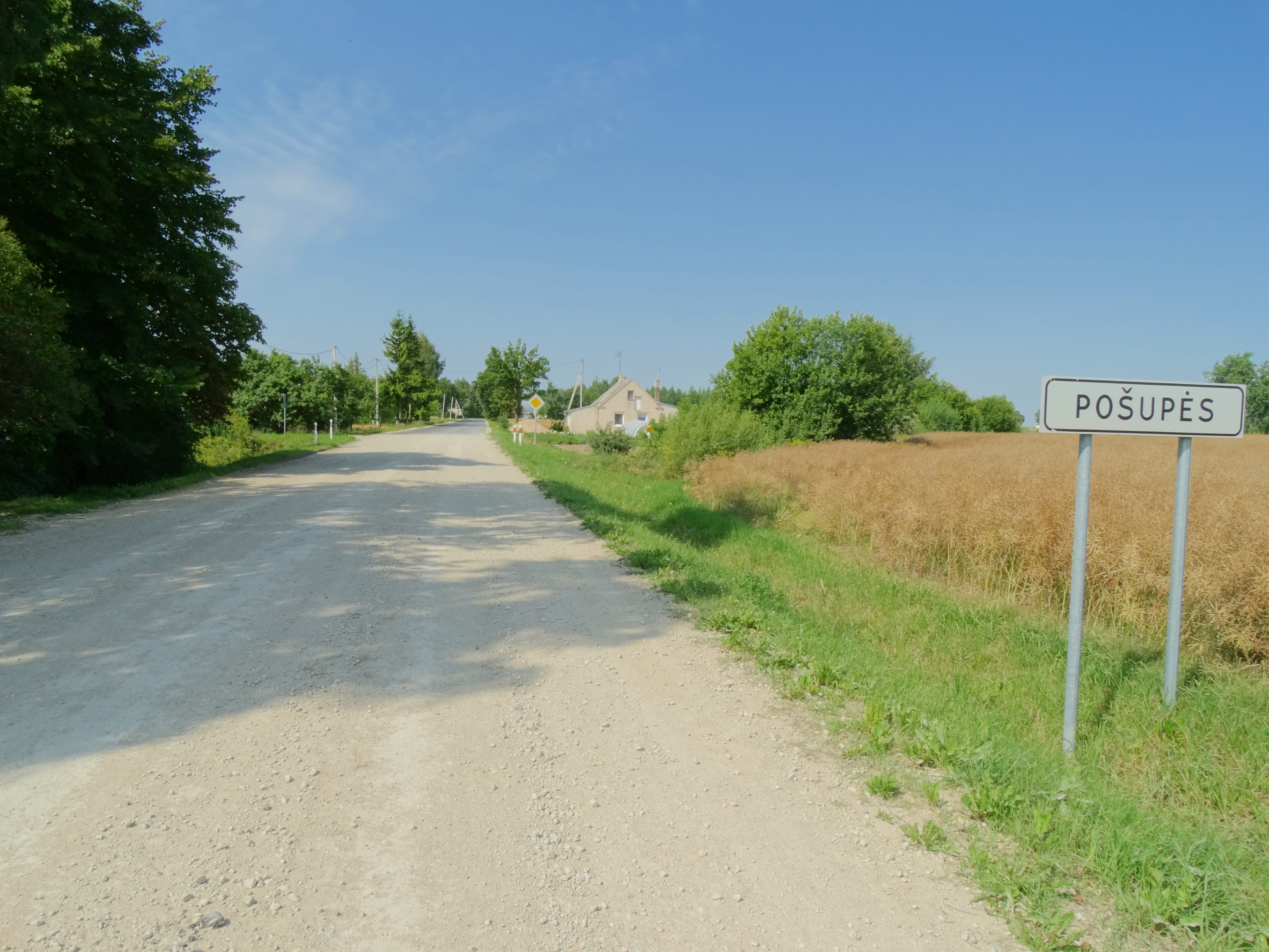 Pošupės, Joniškis District, Lithuania